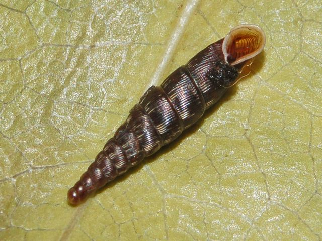 Clausilia bidentata var. crenulata in Acquasanta, Genova, Italy